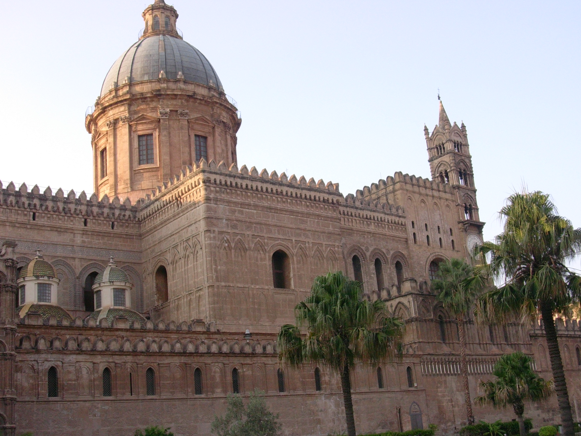 Personal picture by Valentina Funel, September 2005